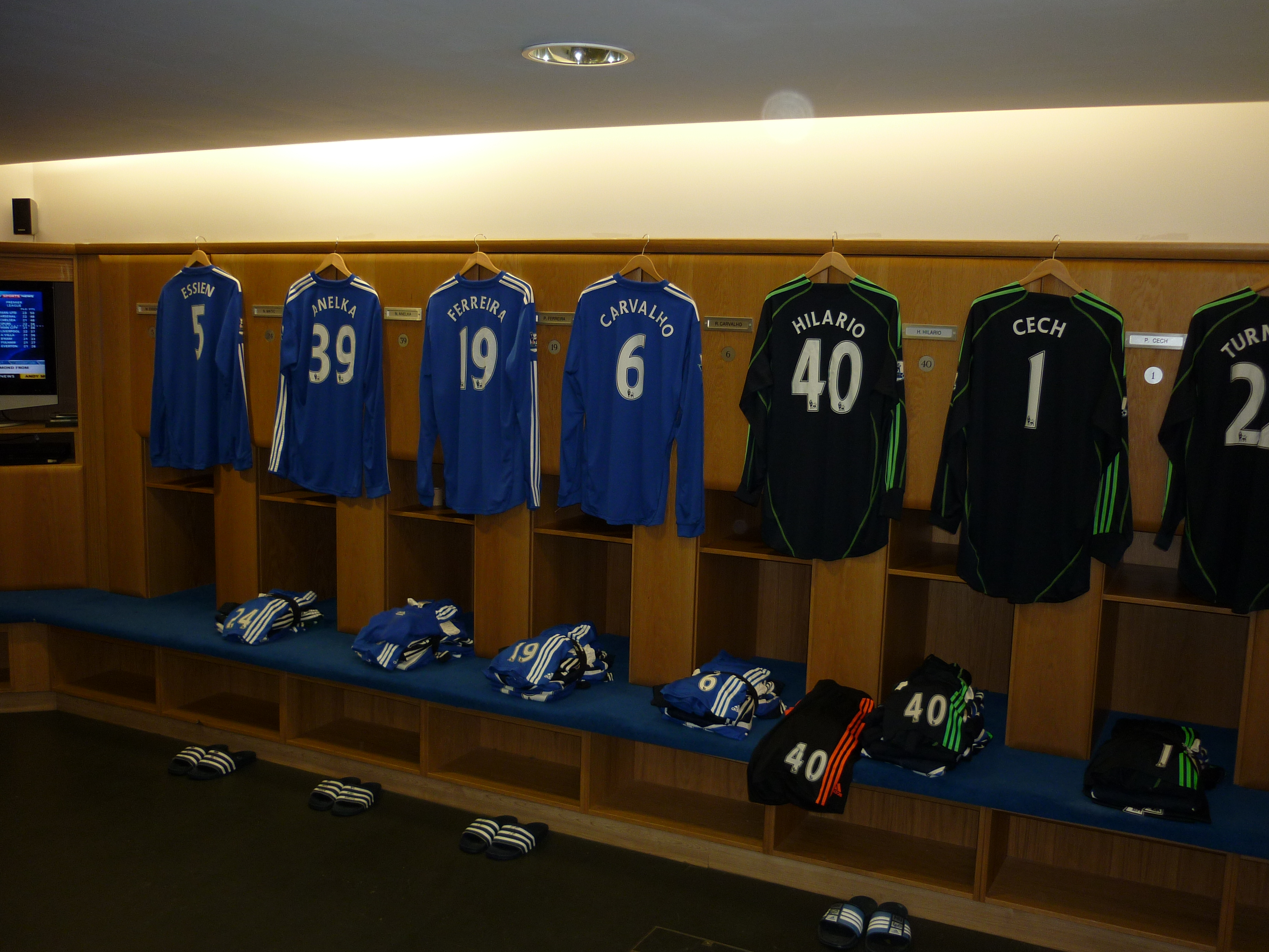 Another shot of the Chelsea Changing Room at Stamford Bridge. Again, the players kits are already laid out because of the game the next day. Spielertrikots in der Heimkabine im Stamford Bridge Stadion. Die Trikots wurden am Tag vor dem Spiel gegen Birmingham am 27. Januar 2010 vom Zeugwart rausgelegt.